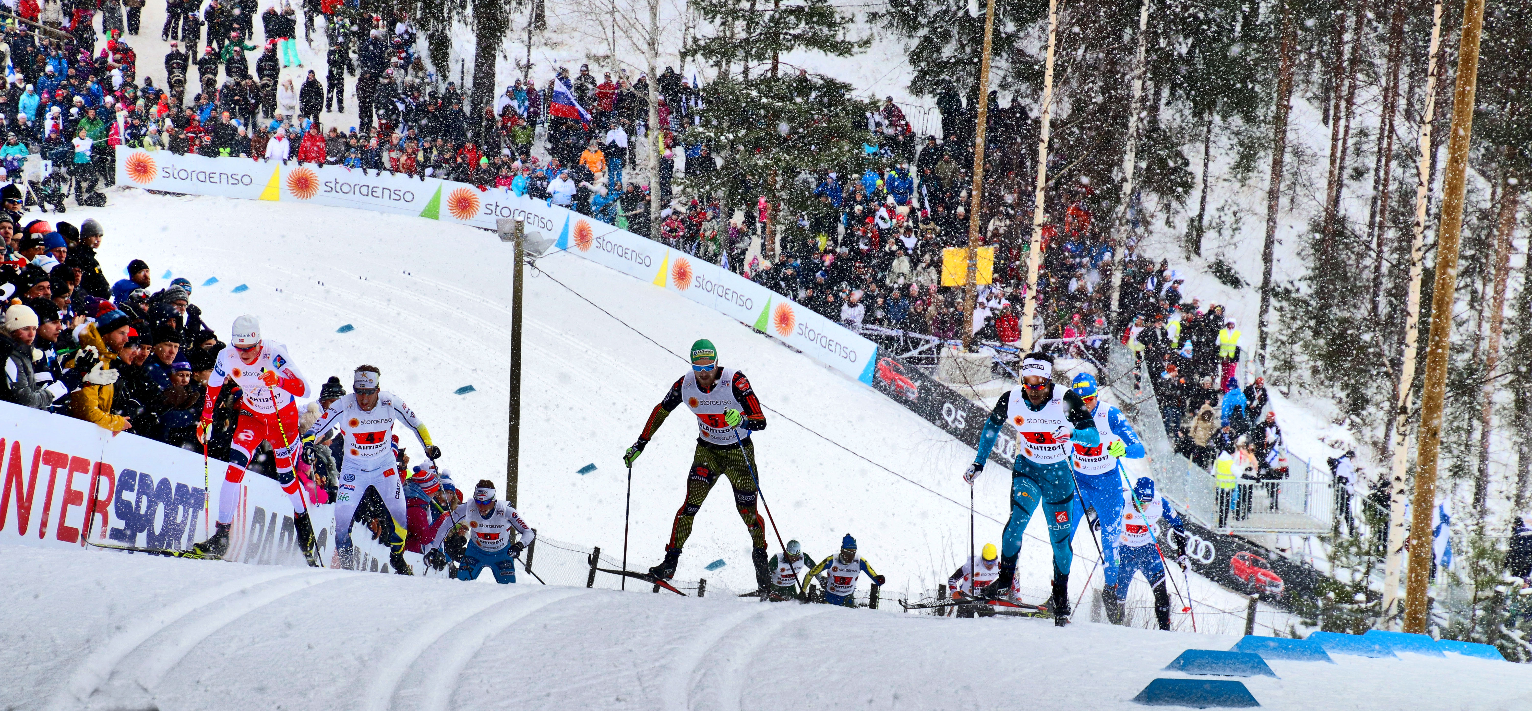 Lahti- At the cross-country world championships.